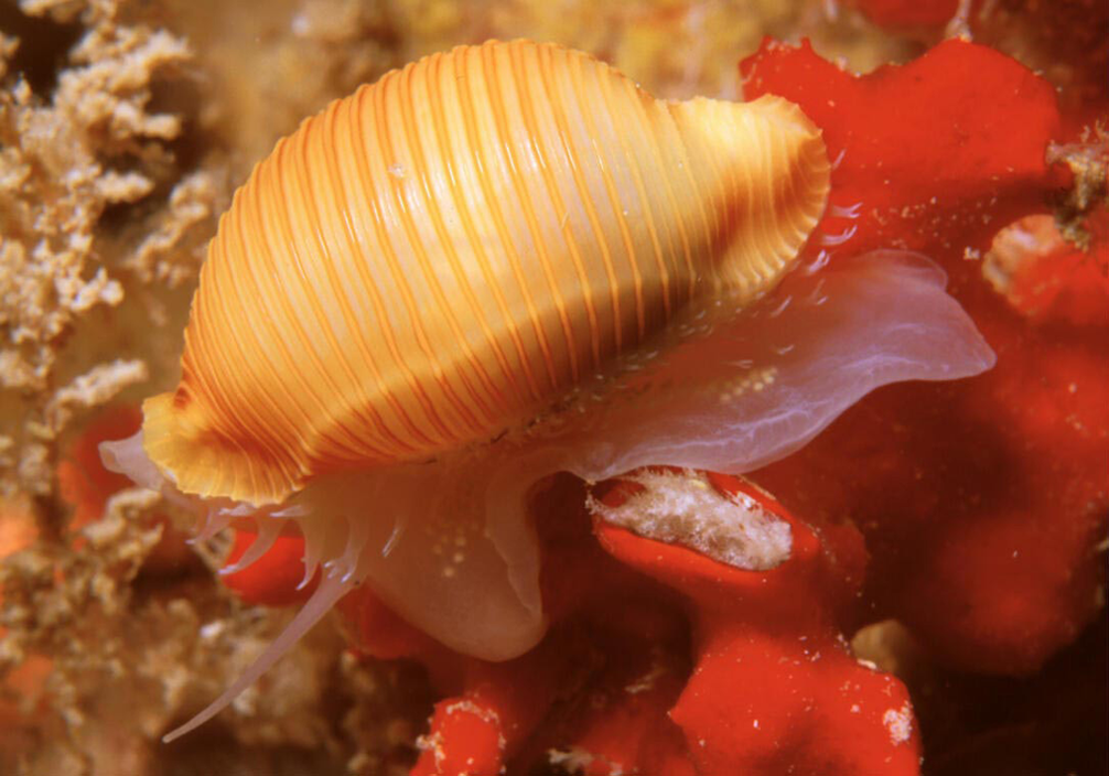 Ipsa childreni, the charismatic cowrie.